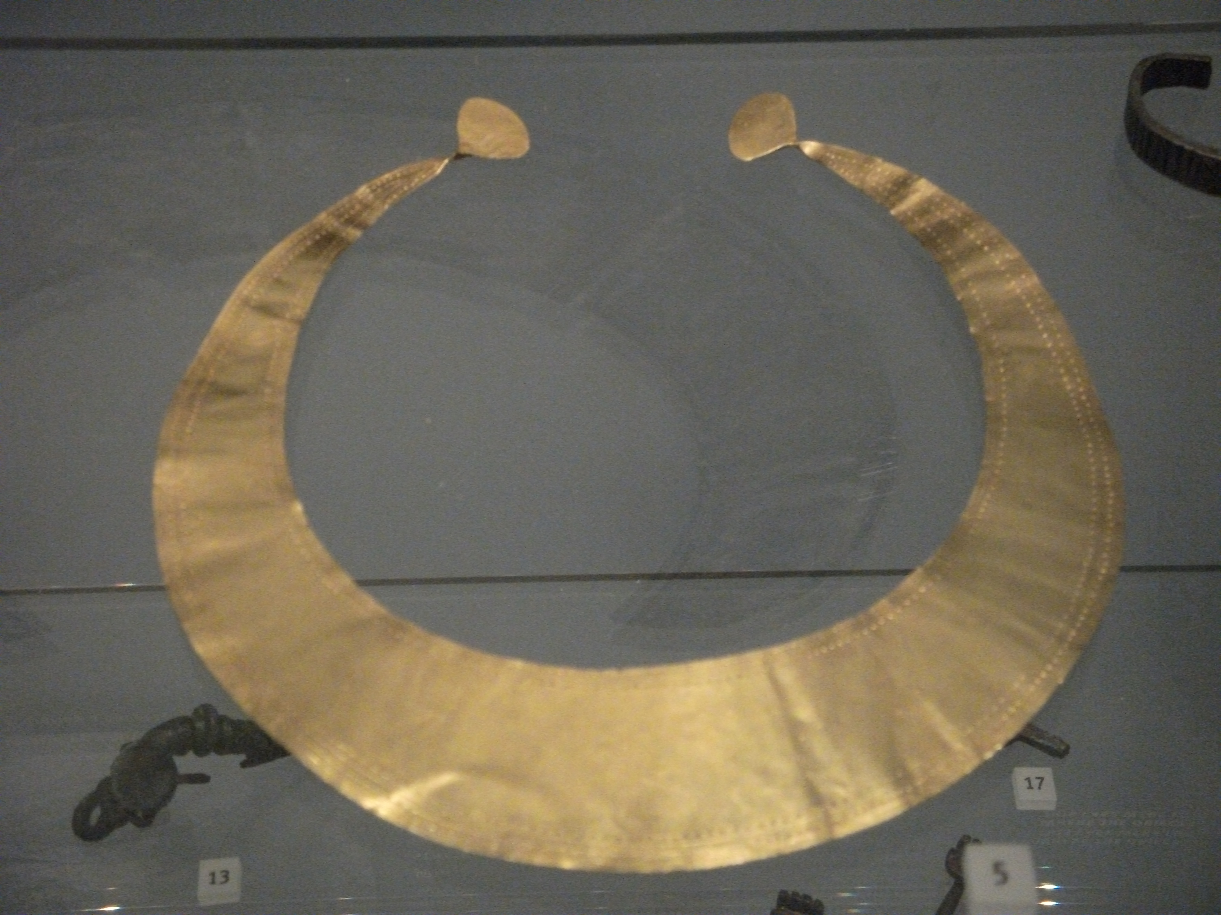 Museum of Scotland, lunula. This gold collar, also called a lunula, is one of two found at Southside in Lanarkshire. It is a high status ornament, worn sometime between 2300 and 2000 BC, [1]